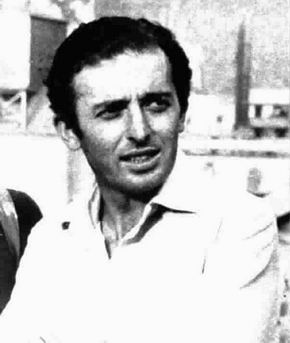 Italian director Mauro Severino